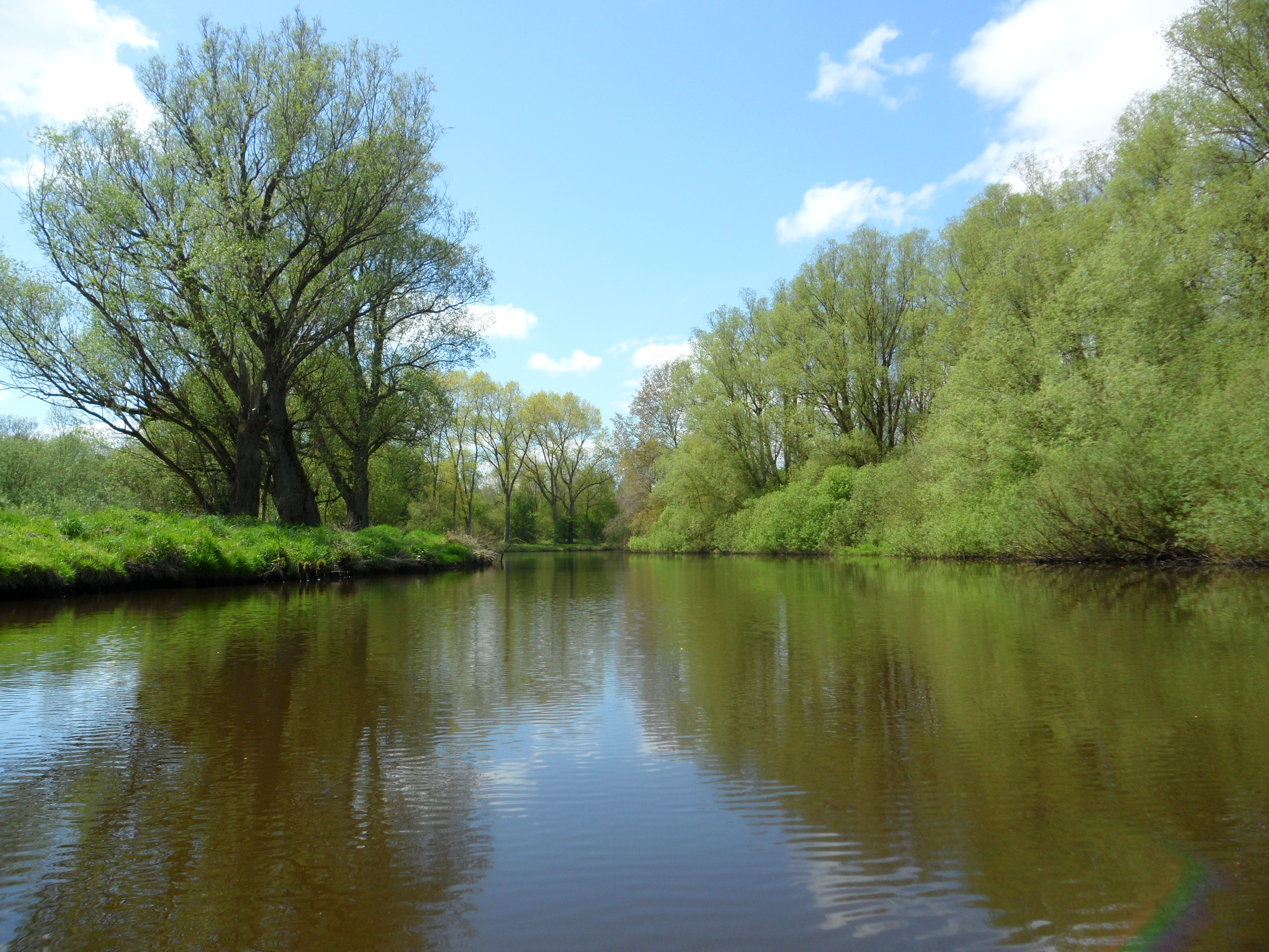 Haaler Au